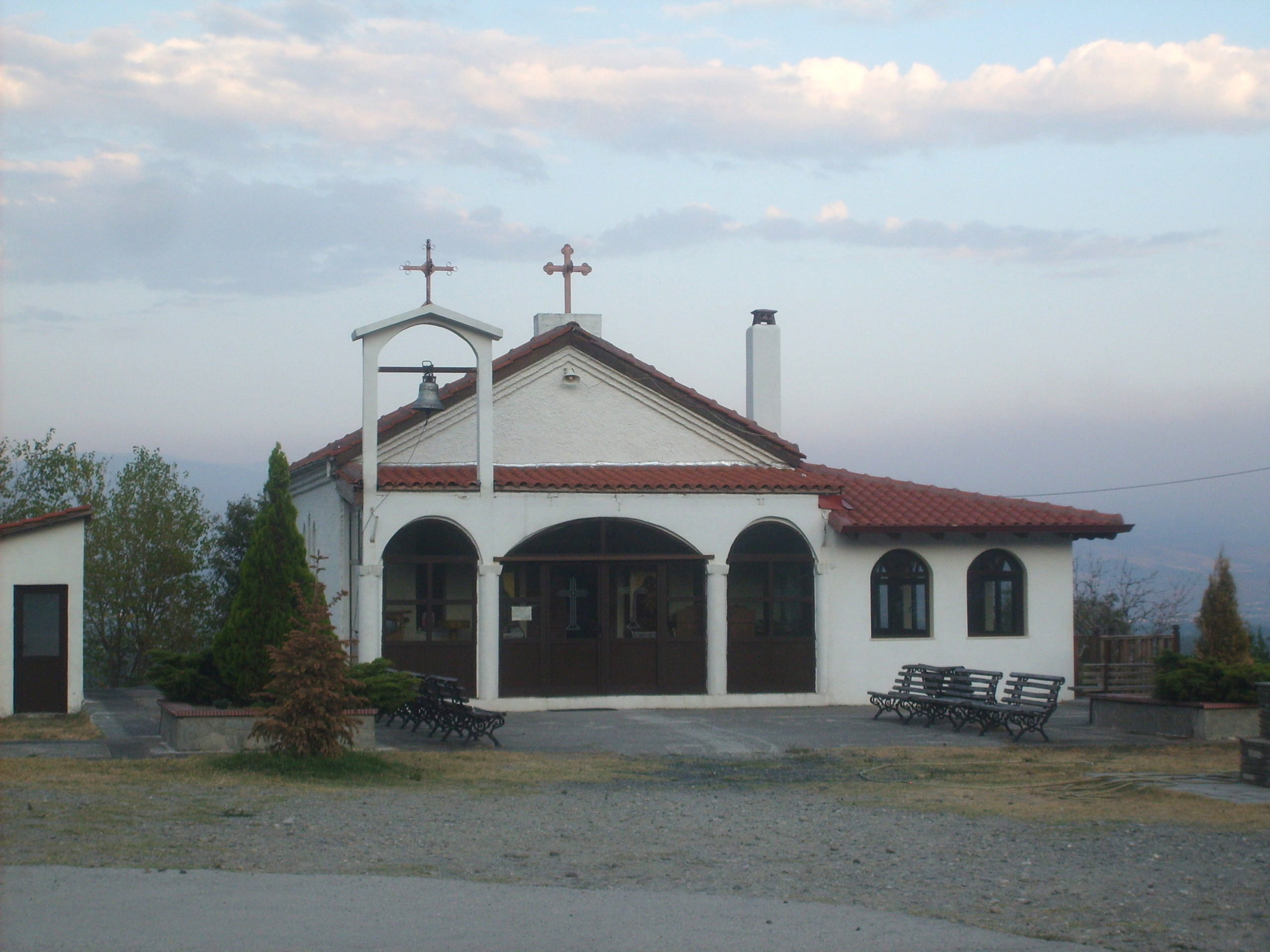 Older church in the Monastery of St. Ilarion in the village Promachi, Almopia, Greece